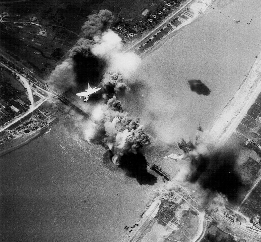 A U.S. Navy LTV A-7E Corsair II (BuNo 157526, pilot Mike A. "Baby" Ruth) of Attack Squadron VA-195 Dambusters bombs the Hai Duong railway and highway bridge in North Vietnam. VA-195 was assigned to Attack Carrier Air Wing 11 (CVW-11) aboard the aircraft carrier USS Kitty Hawk (CVA-63) for a deployment to Vietnam from 17 February to 28 November 1972. On 10 May 1972, "Operation Linebacker I" commenced, the U.S. Navy's contribution to the air offensive against North Vietnam consisted of 176 attack sorties, 60% of them flown by A-7 aircraft.